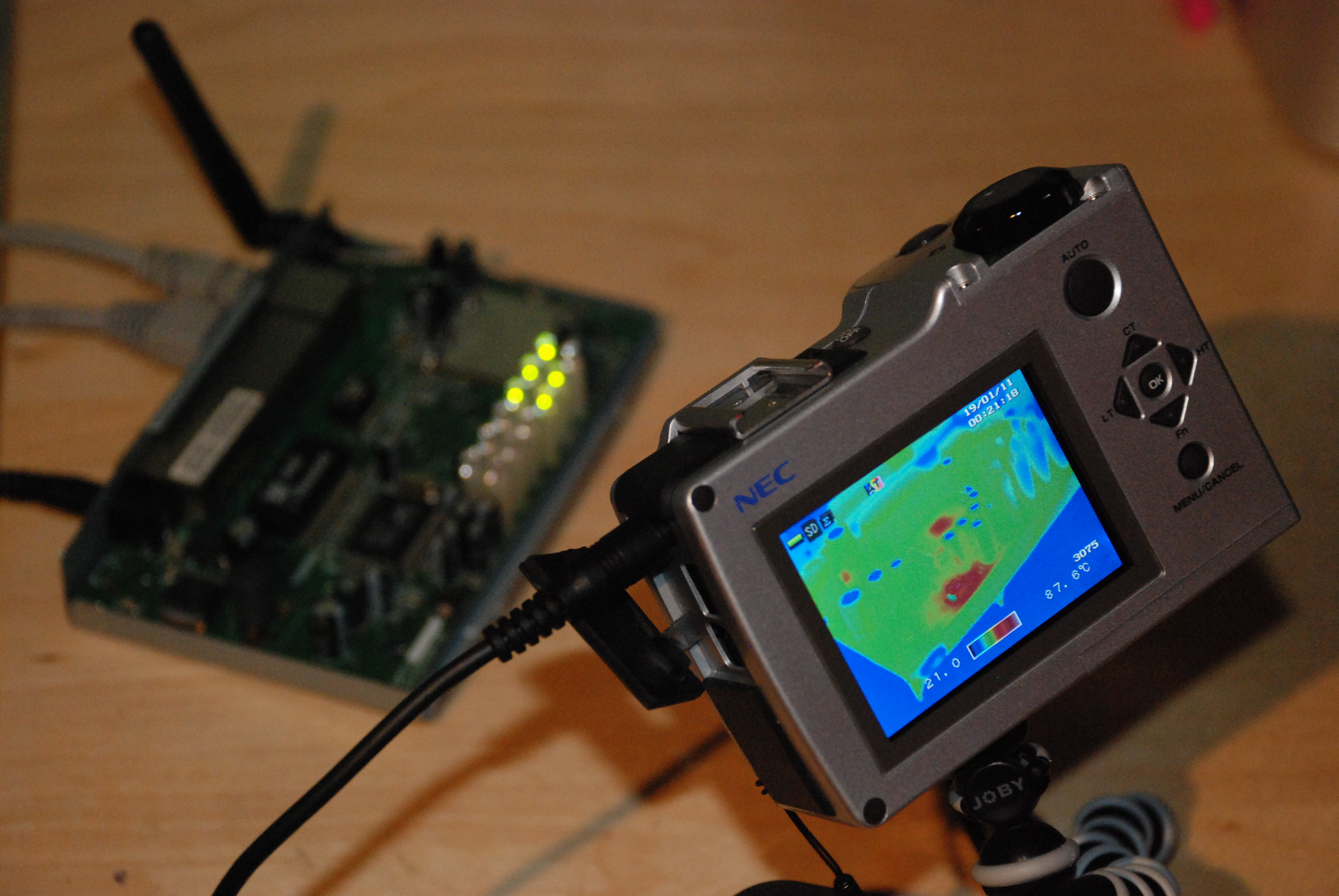 NEC Thermo Shot with the image of the printed circuit board of a wireless router